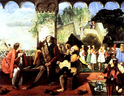 Scene from Twelfth Night by William Shakespeare: Act II, Scene iv